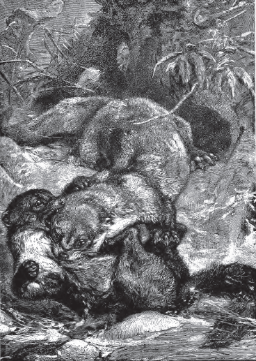 European otter attacking a beech marten